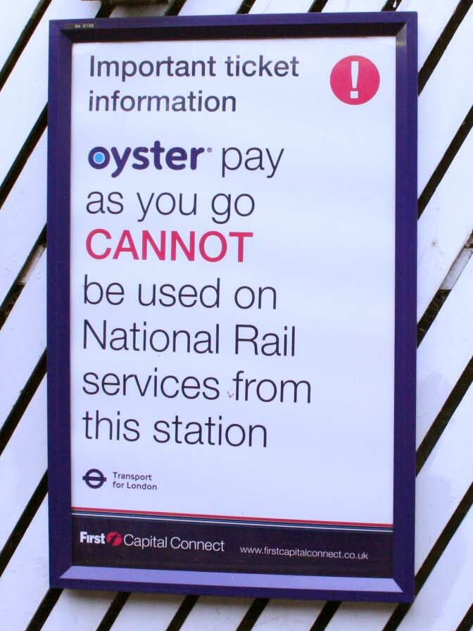 First Capital Connect poster displayed on platforms warning passengers that Oyster prepay is not valid